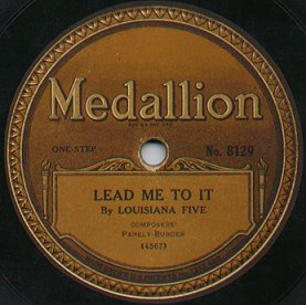 Label of "Medallion Records" disc of "Lead Me To It" recorded by the Louisiana Five, 1919